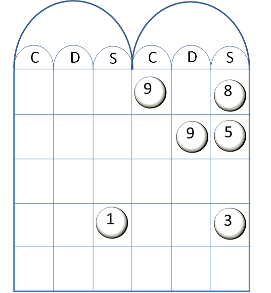 Representation of a part of Gerbert abacus. Numbers are represented using moder charcaters.